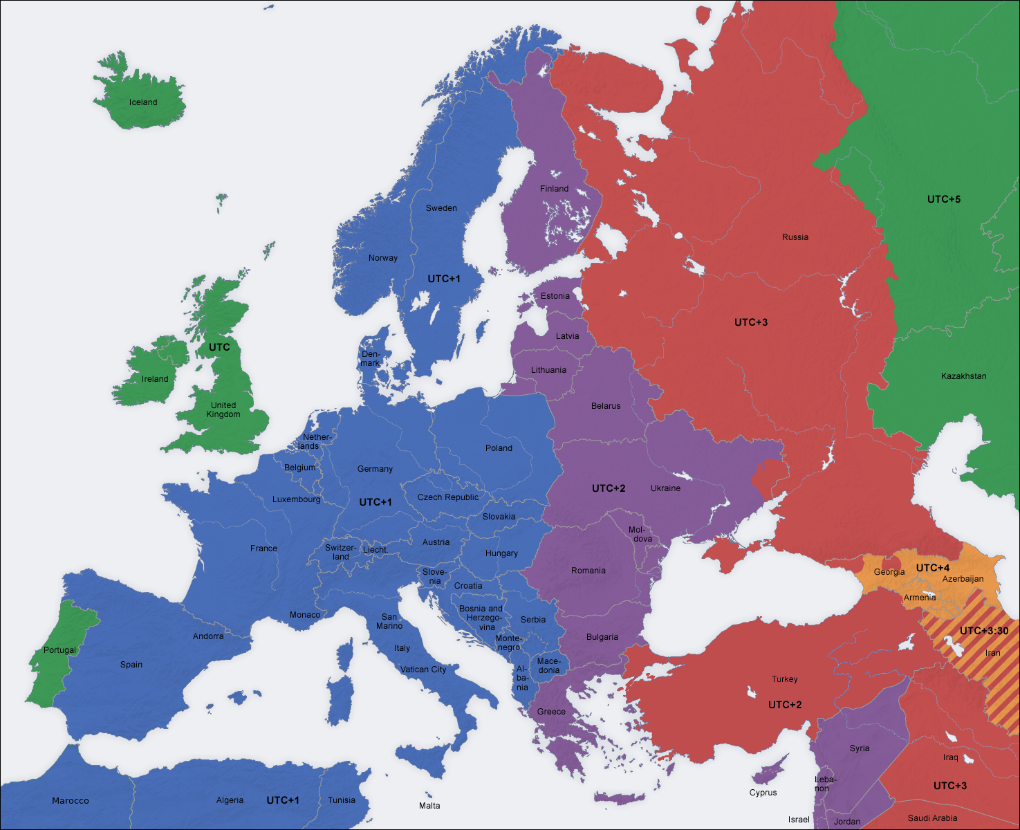 Time zones in Europe, English map